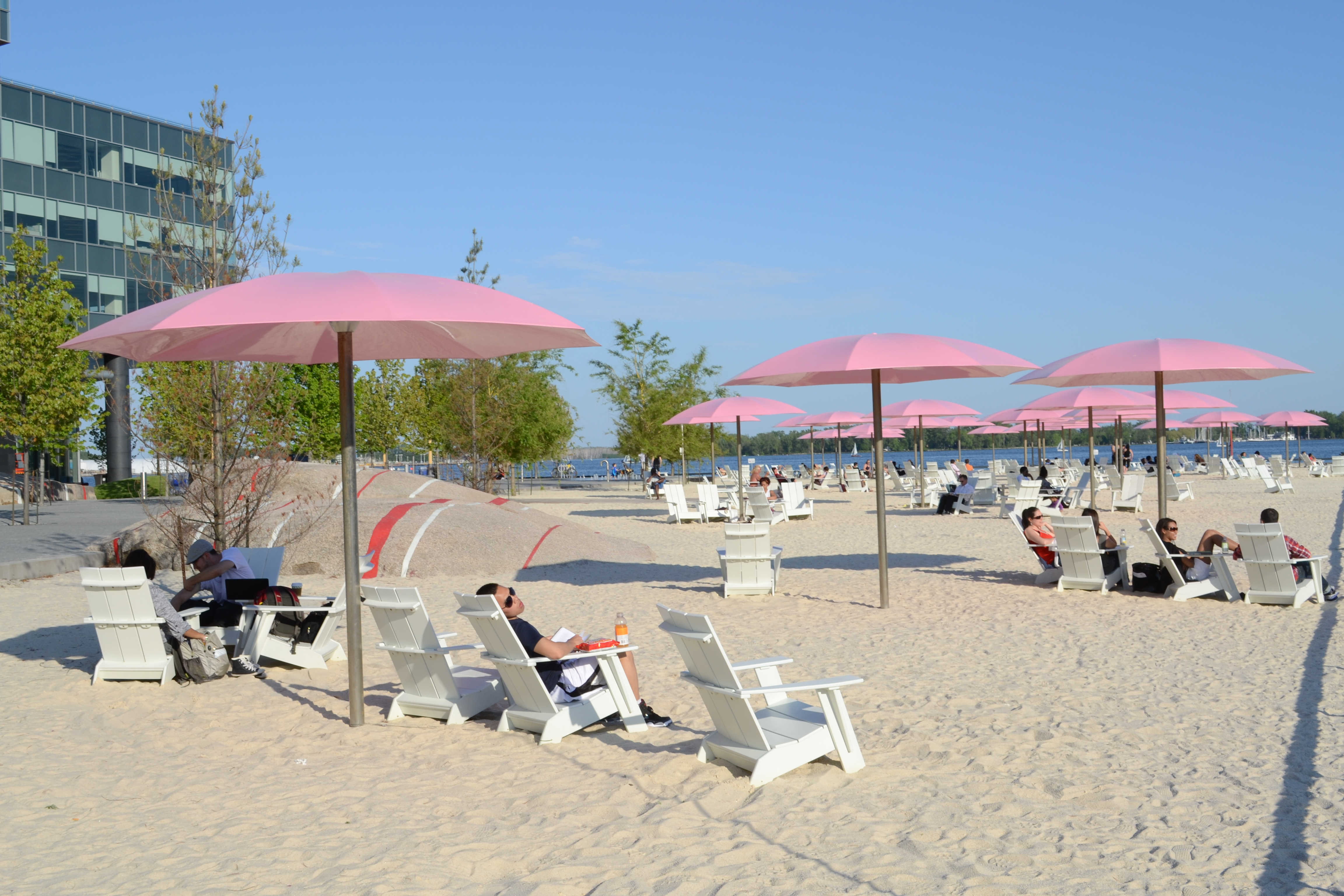 Sugar Beach